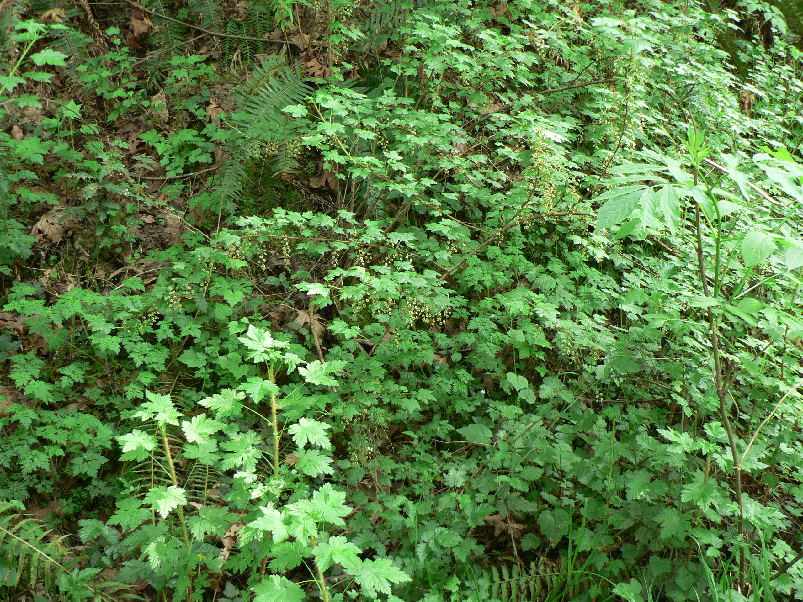 Prickly Currant